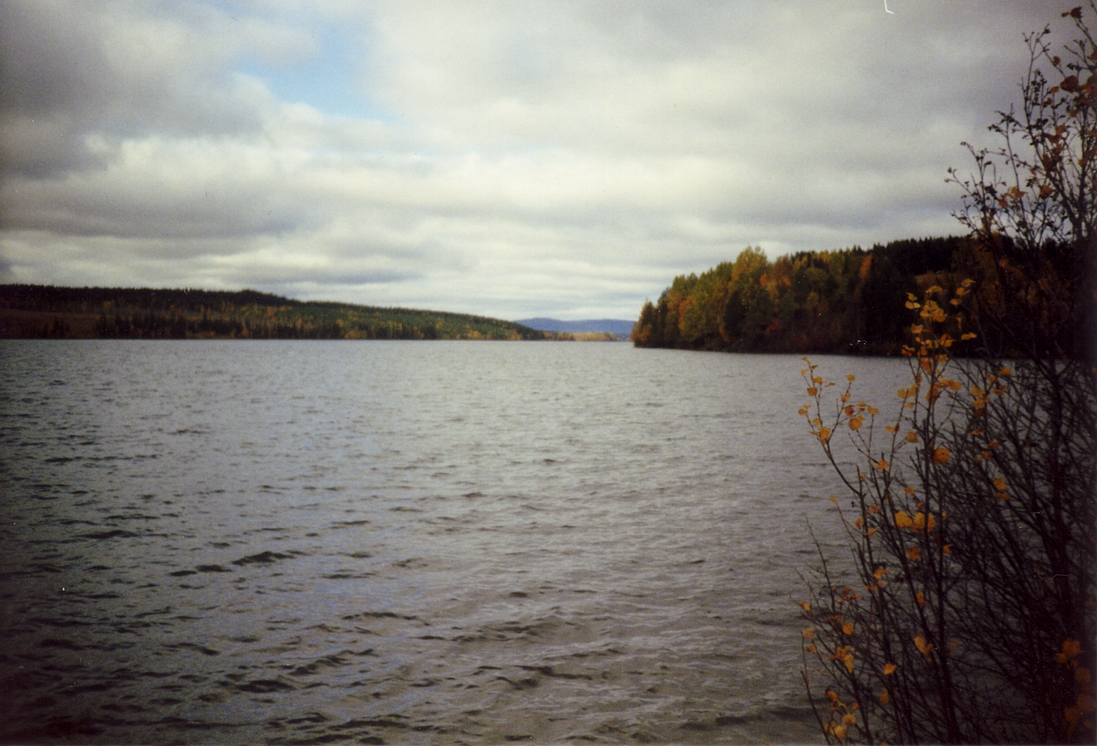 Tåsjön seen from Västertåsjö with Högnäset to the right. 1990s analog photo.